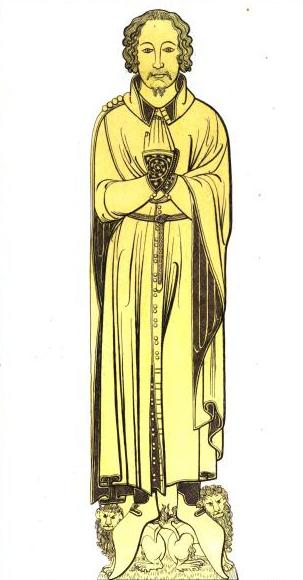 Monumental brass of Robert Attelath, illustration (Plate VII) in Engravings of sepulchral brasses in Norfolk and Suffolk Volume 1 (2nd edition, 1838), by John Sell Cotman and Dawson Turner.